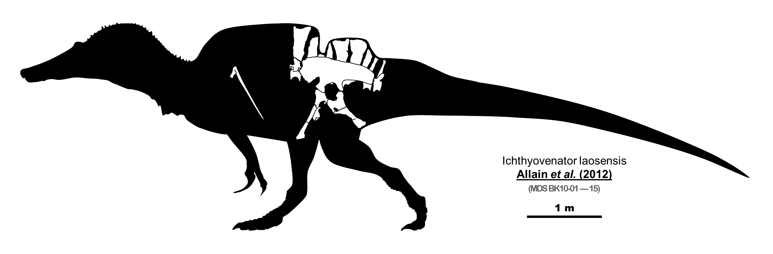 Skeletal reconstruction of the spinosaurid species Ichthyovenator laosensis, based on Allain et al. (2012)[1], with silhouette based on Scott Hartman's Baryonyx walkeri skeletal